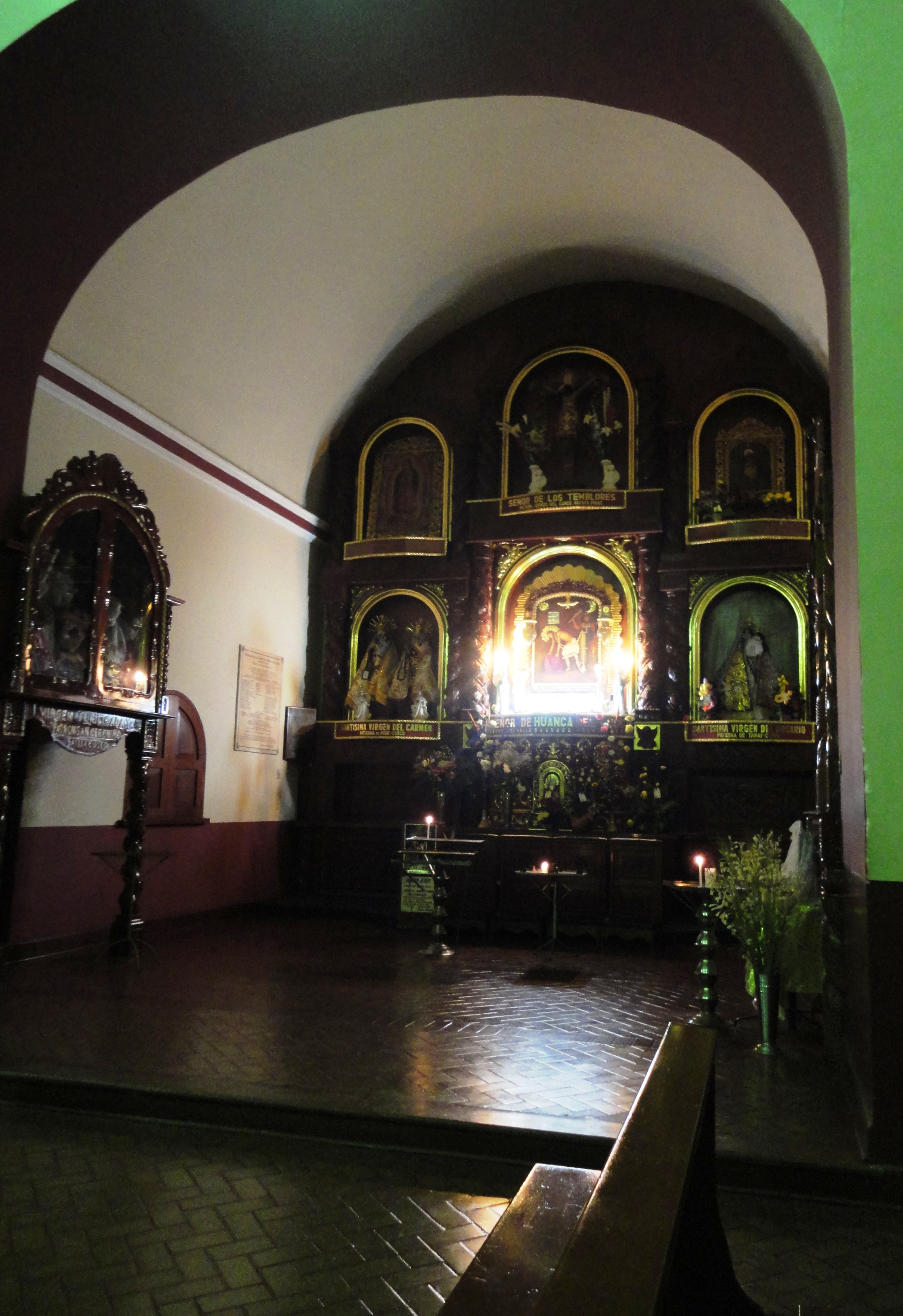 Altar in St. Sebastian martyr church in Lima, Peru.